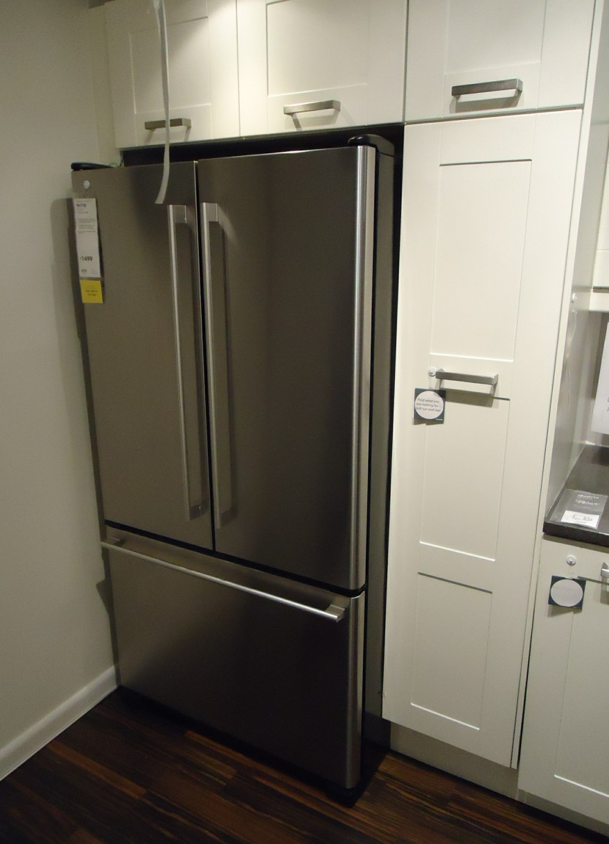 A design in which a refrigerator fits in among cabinets.